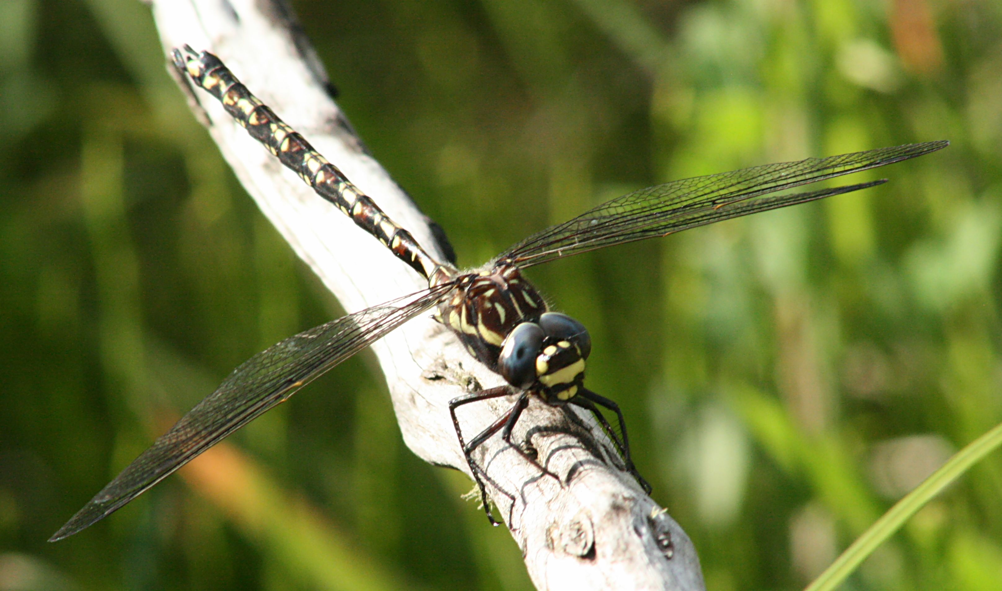 Front view of a male alpine darner (Austroaeschna flavomaculata) along the Riverside Walk in Thredbo. (Identification based on pictures and descriptions at [1]).